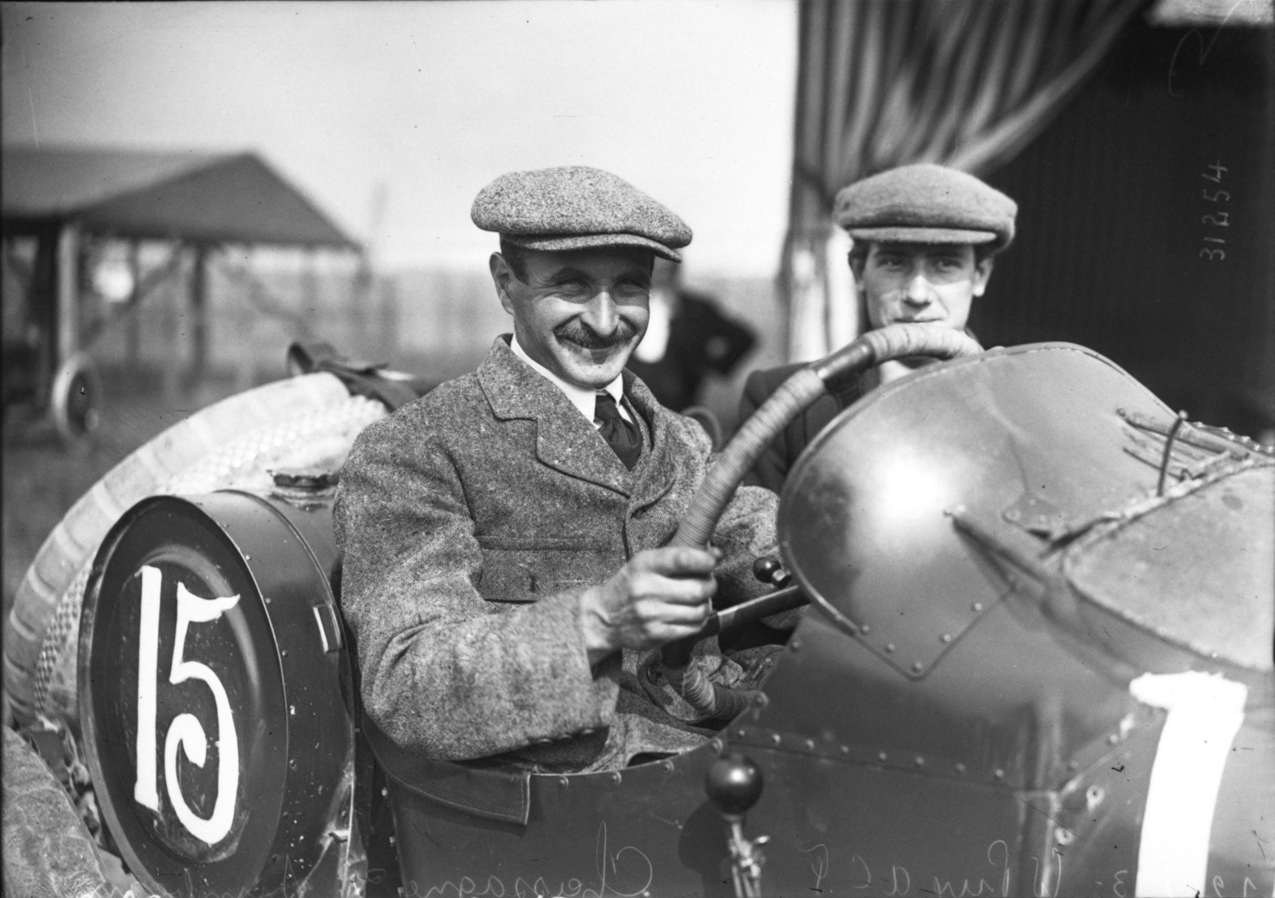 Jean Chassagne at the 1913 French Grand Prix